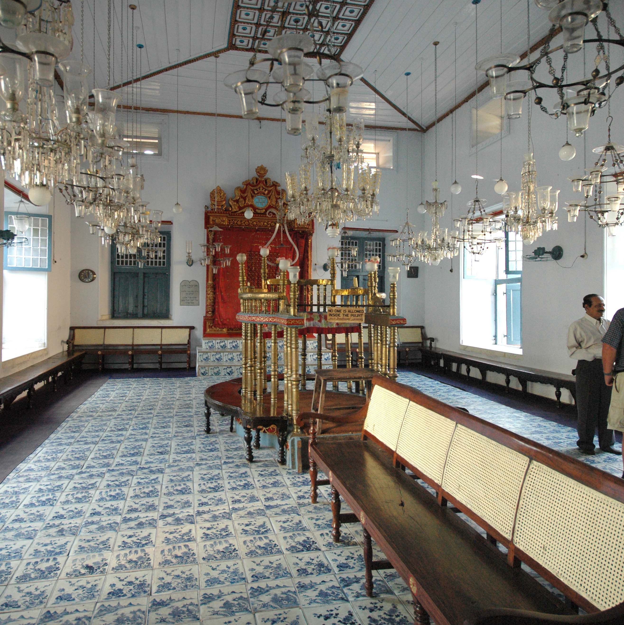 Inside Paradesi (white jews of Kochi) Jewish Synagogue. Other photo's: - OpenStreetMap (Info)